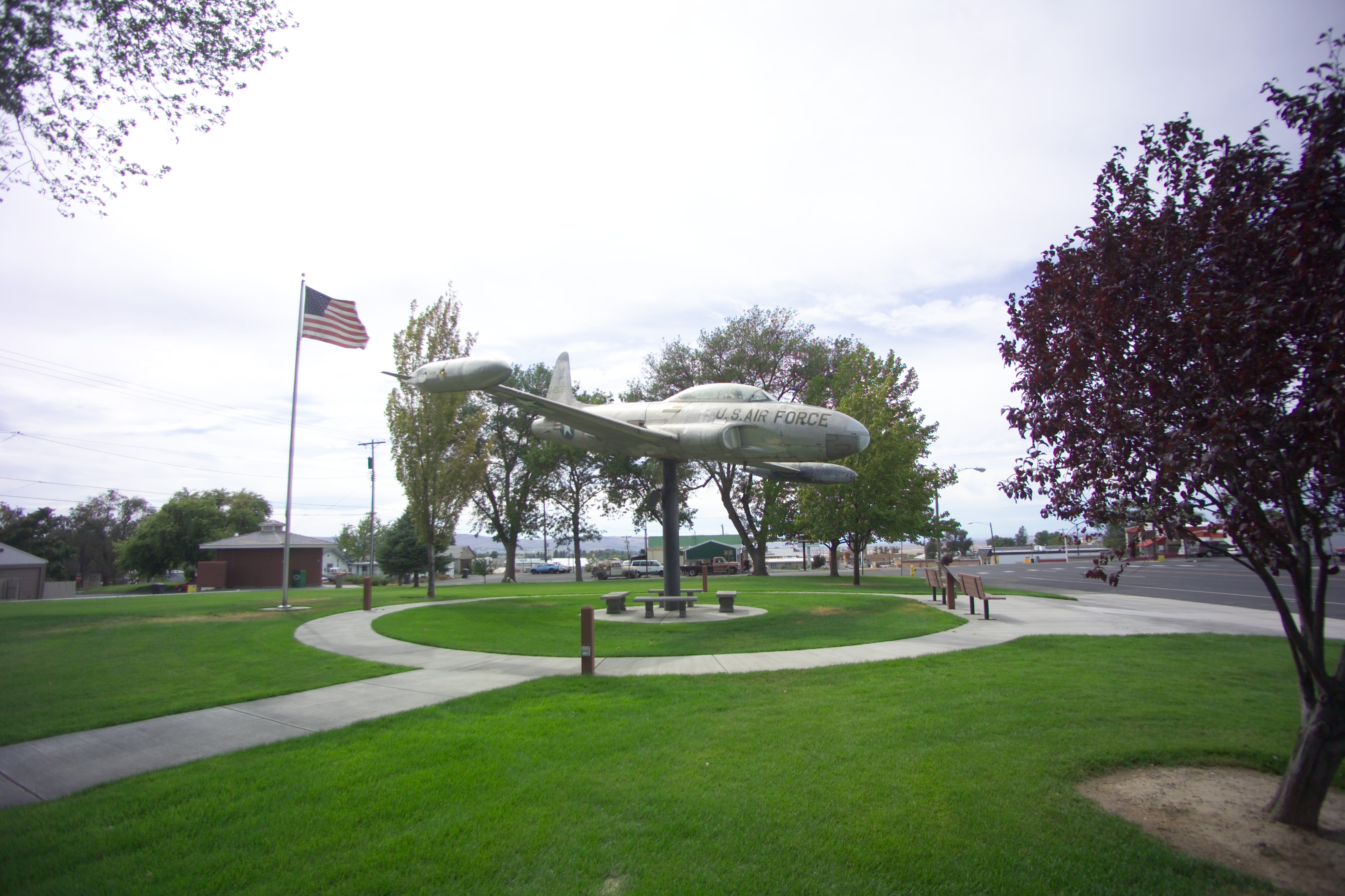 Pioneer Park in Othello, Washington. It is the city’s oldest park, dating to 1912. The park features a T-33 jet honoring Othello’s relationship to a former nearby Air Force base.